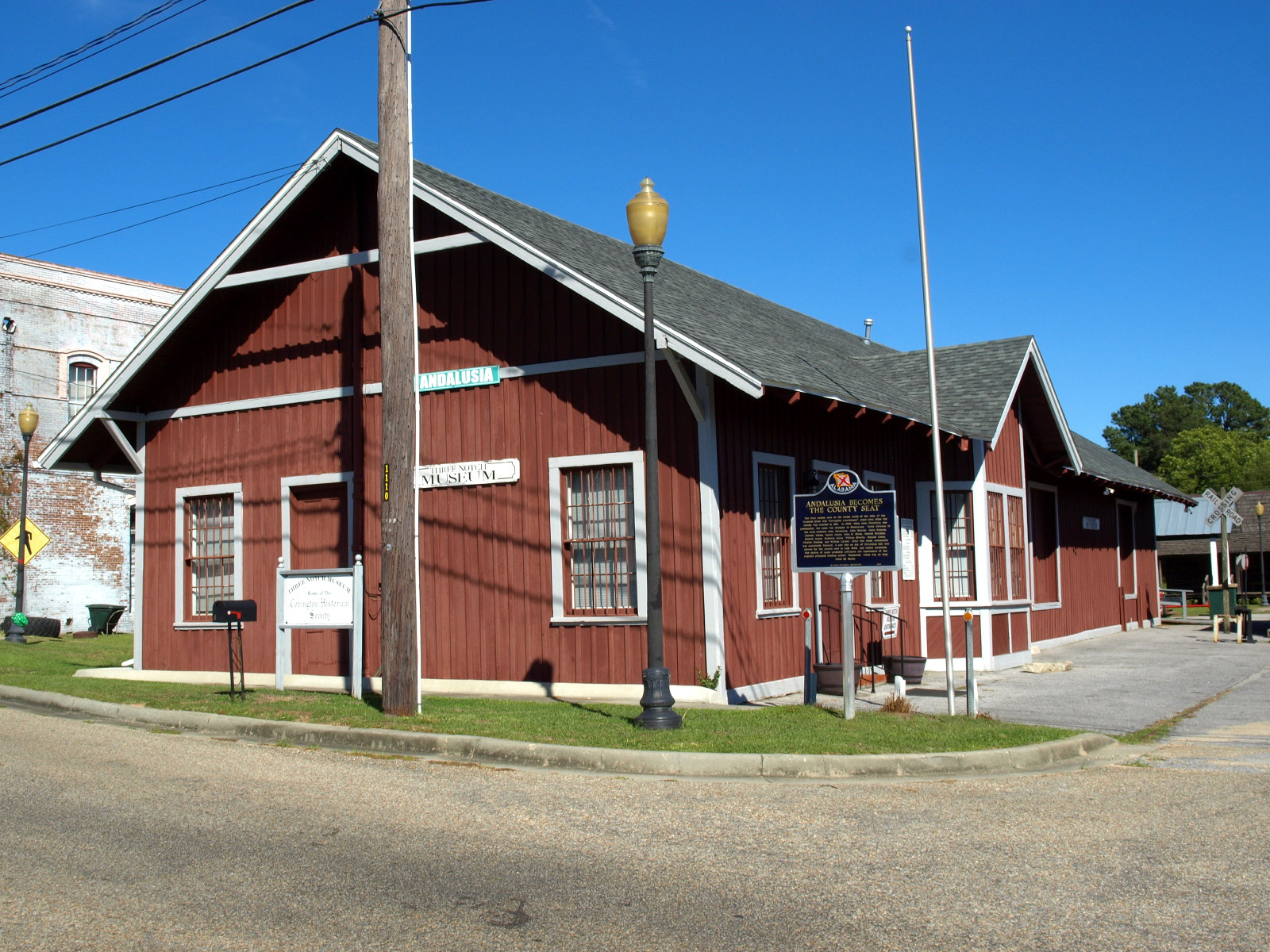 The Three Notch Museum (formerly the Central of Georgia Depot) in Andalusia, Alabama, listed on the National Register of Historic Places